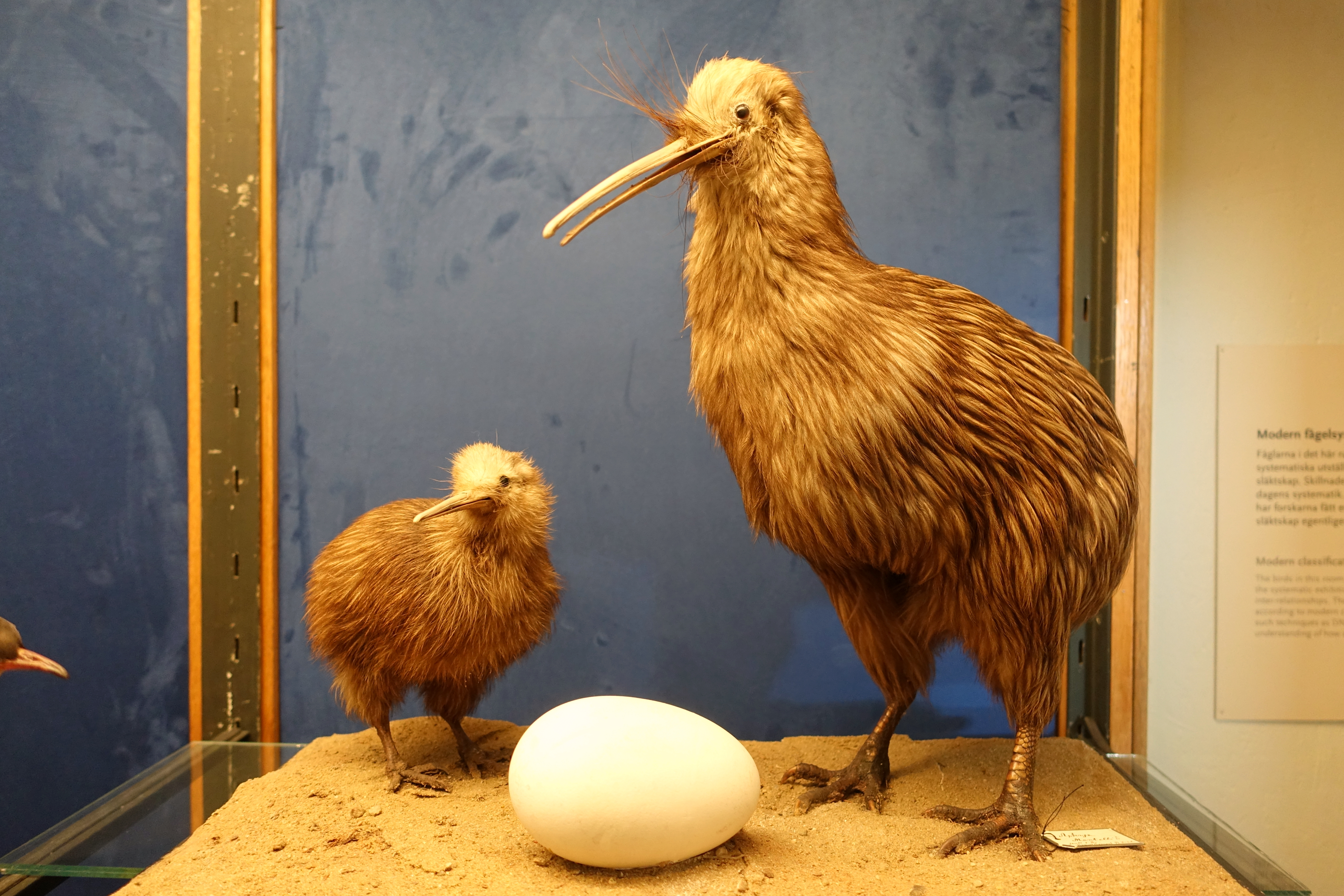 Exhibit in the Swedish Museum of Natural History - Stockholm, Sweden.